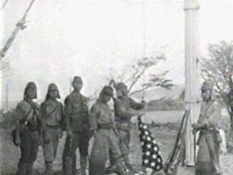 Japanese troops take down Stars and Stripes at Corregidor surrender